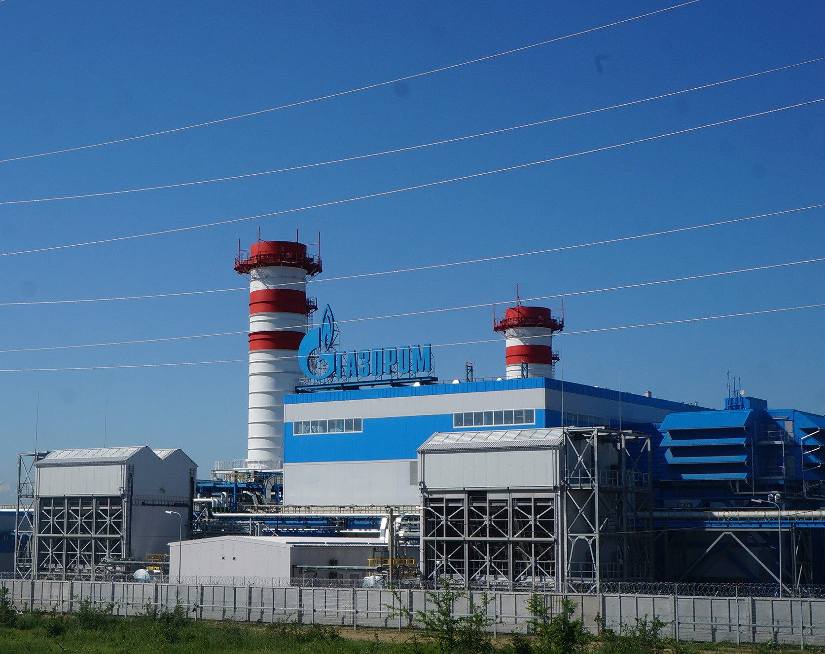 Groznenskaya TPP